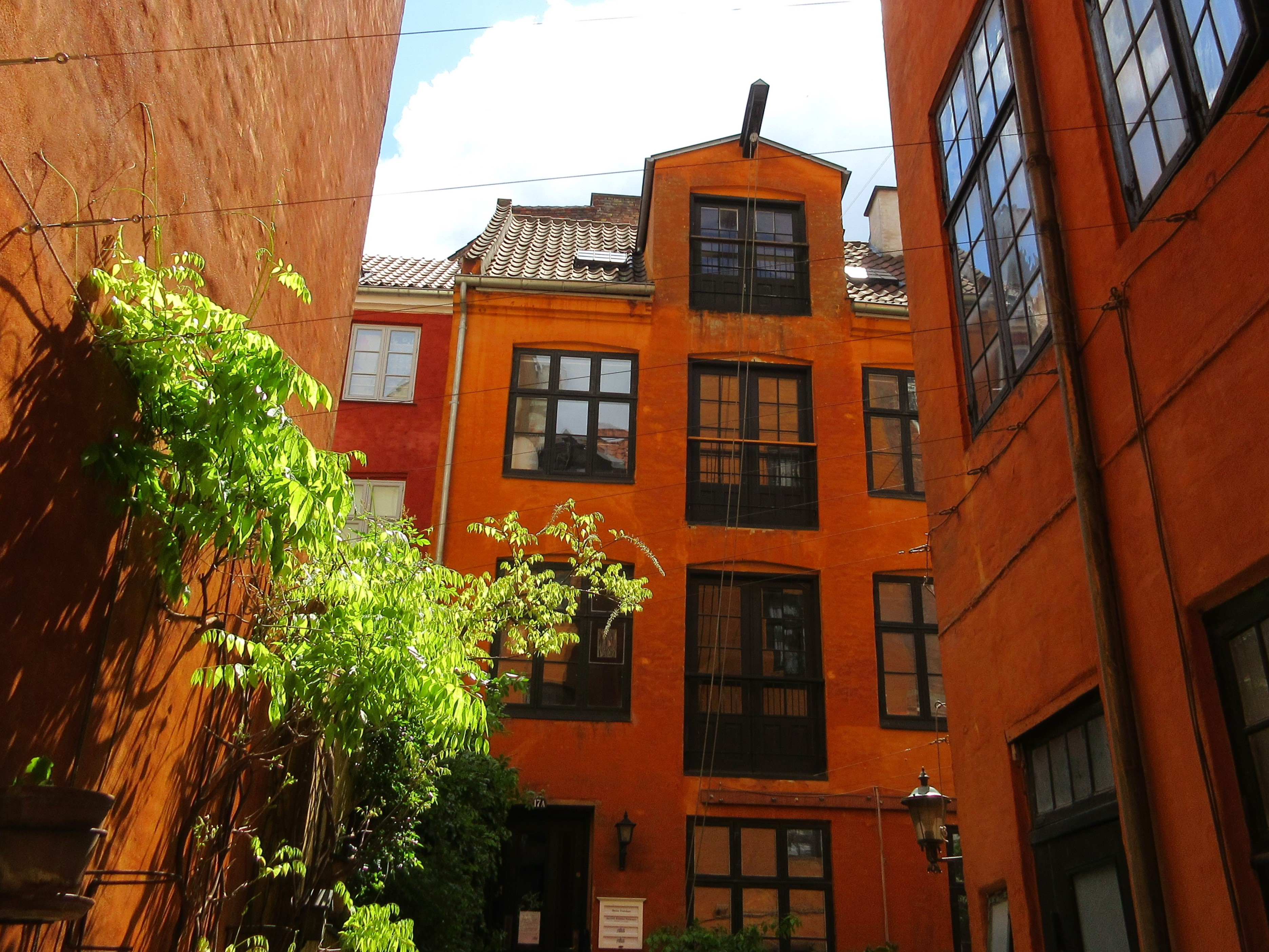 Warehouse in the courtyard of Studiestræde 17 in Copenhagen, Denmark